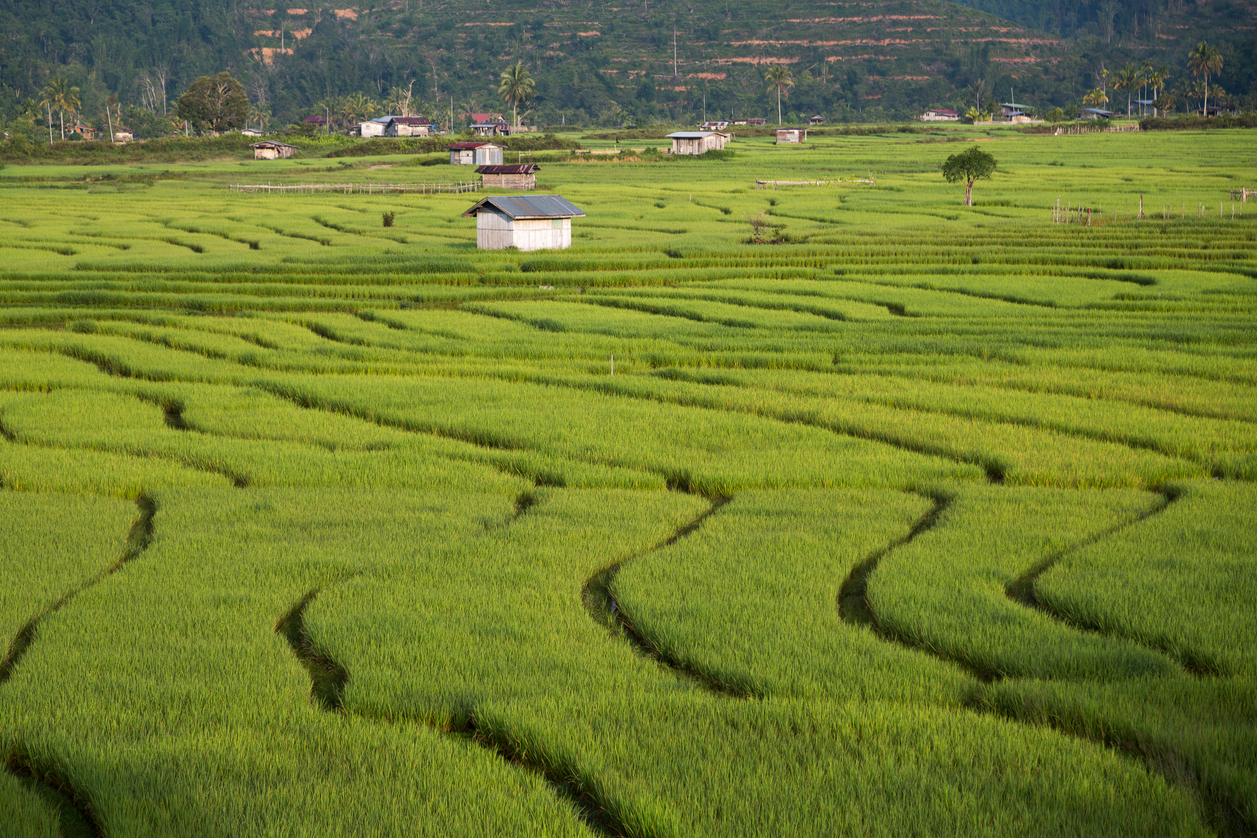 Kg Tibabar, Tambunan, Sabah: Rice paddy north of Tibabar - it is the location where the battle of Tambunan took place which ended the Mat Salleh Rebellion in 1900.